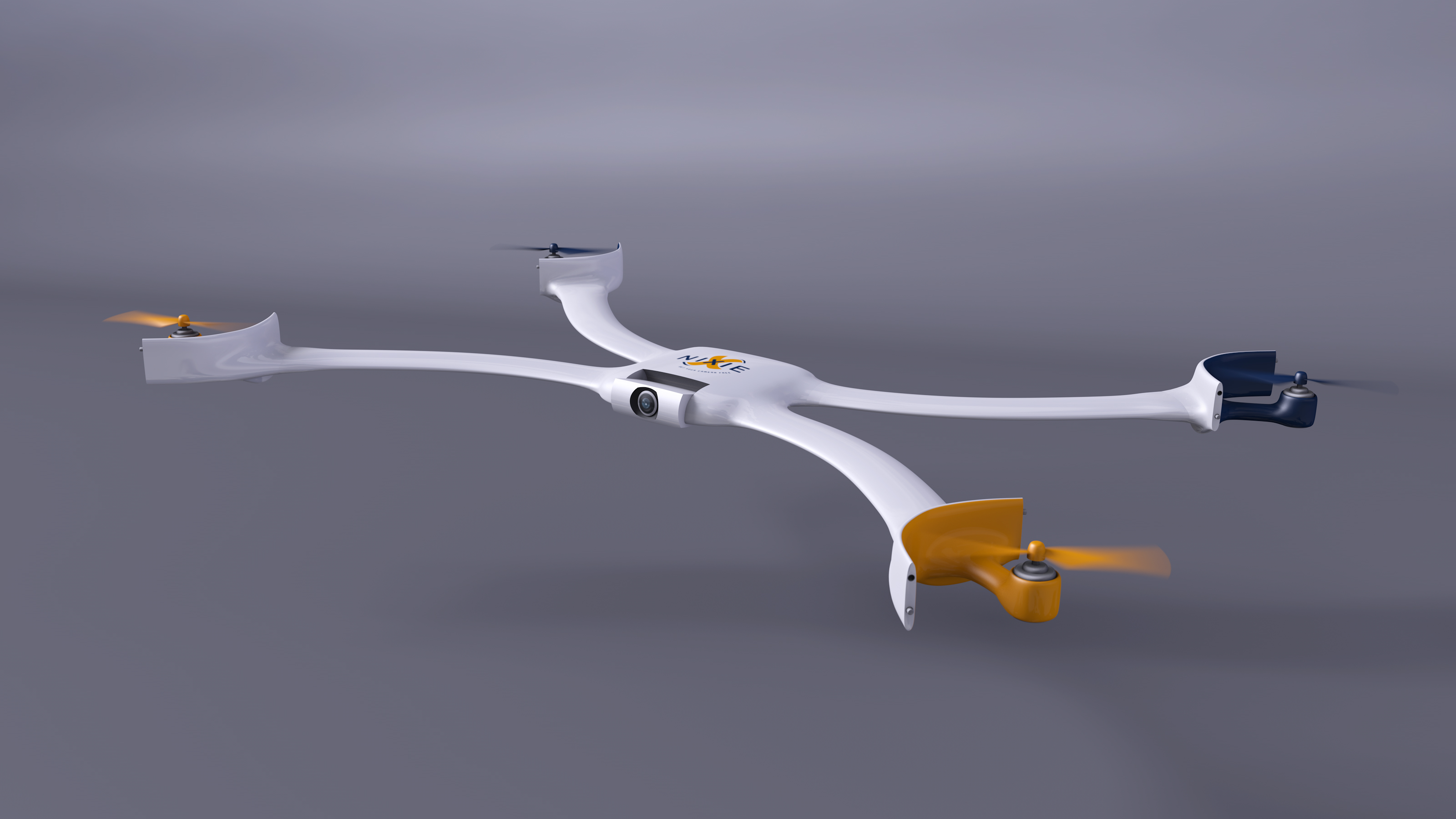 Early concept image of Nixie in flight configuration.